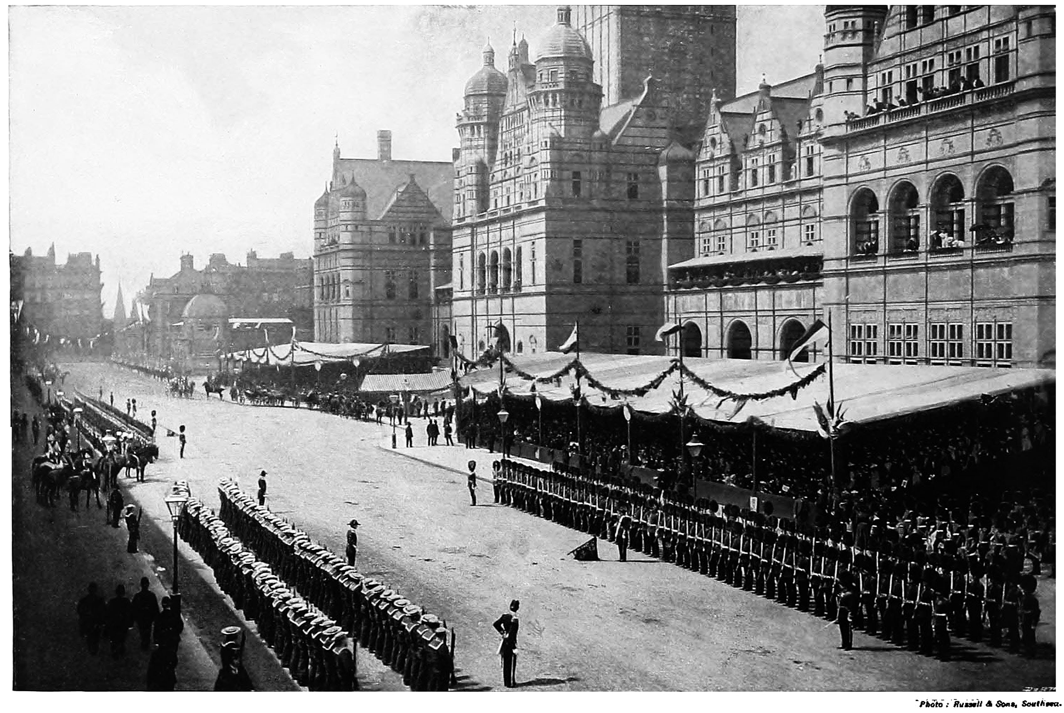 THE QUEEN-EMPRESS OPENING THE IMPERIAL INSTITUTE, LONDON (1893). This stately pageant, in which the Sovereign was the leading figure, in which the representatives of all parts of the British Empire took part, and of which the great capital of the Empire was the scene, finds a filling place among the illustrations of the outward acts of government of the Empire.' In the background stands the Imperial Institute, built to a large extent by ihe liberality of the Queen's subjects in the Colonies and India. At the entrance may be seen the carriage of Her Majesty, who has just arrived, escorted by a brilliant troop of horsemen, the elite of the Imperial Cavalry, and including representatives of the Cavalry of India, and of the Light Horsemen of Canada, of Australia, and of South Africa. In the foreground are the guards of honour furnished by the Royal Navy and the Foot-Guards, the Colours dipped low in the presence of the Sovereign.